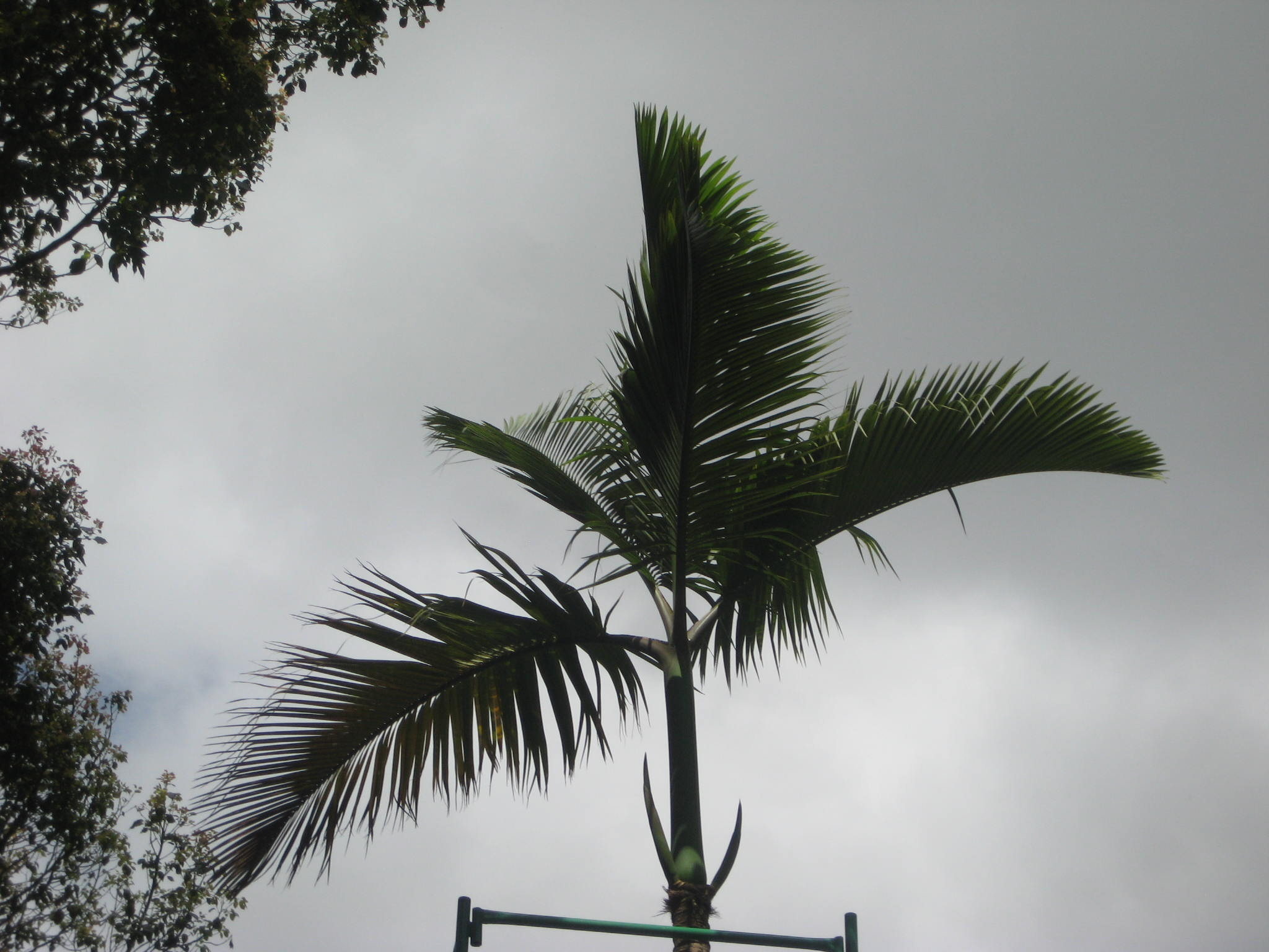 endangered species Hyophorbe amaricaulis at Curepipe botanical garden, Mauritius.